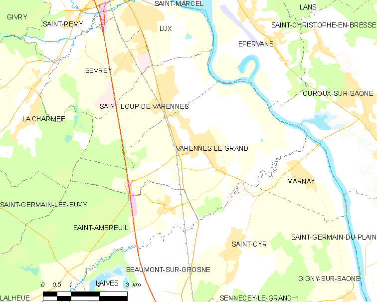 Map of French municipality